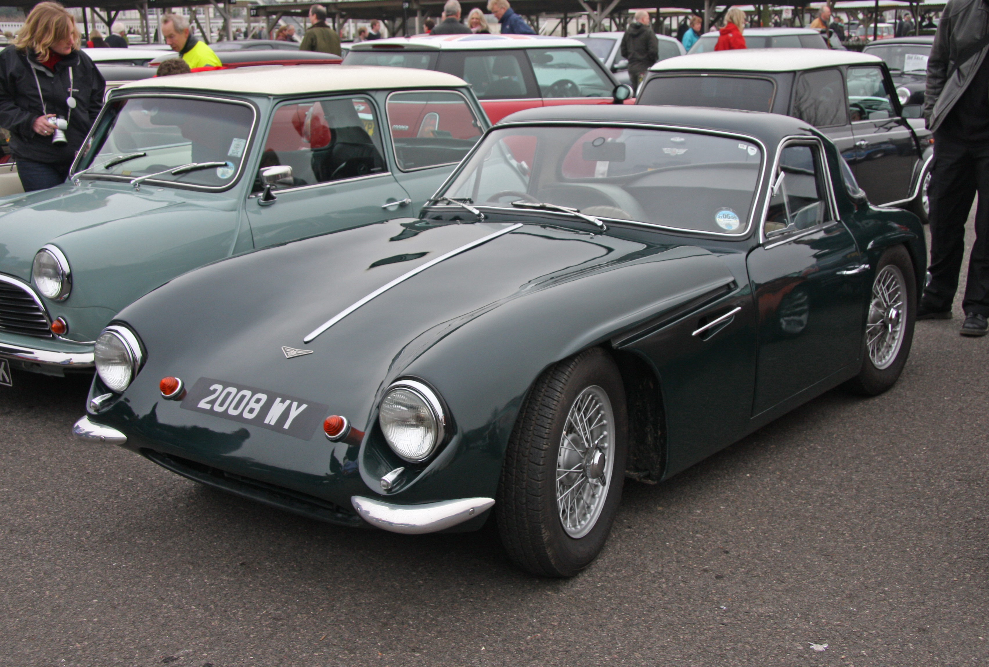 1961 TVR Grantura Mark II, chassis number 7/B/252. First registered in April 1961.